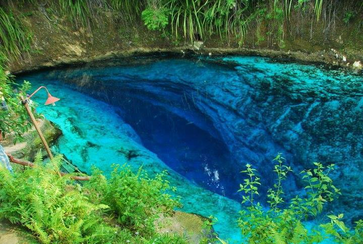 Enchanted River is found in Barangay Talisay, Hinatuan, Surigao del Sur. It is called "enchanted" because no one has ever reached its bottom.